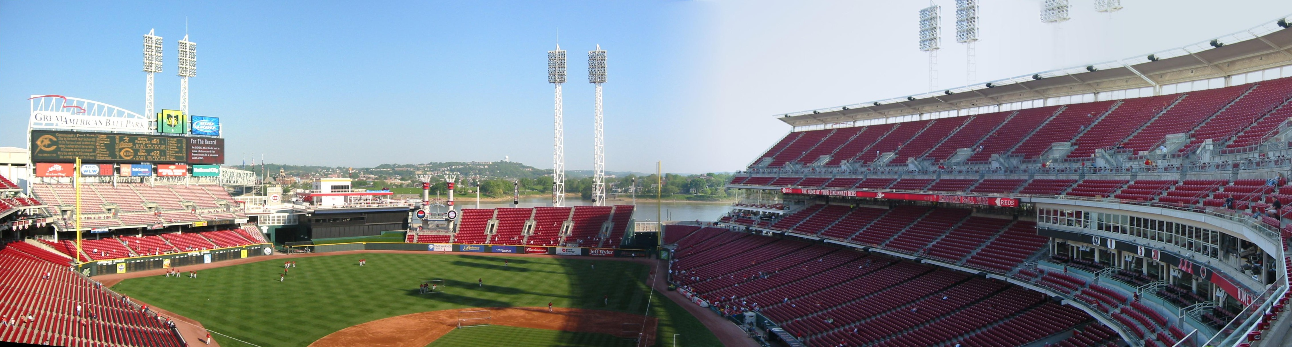 Great American Ball Park, Cincinnati.